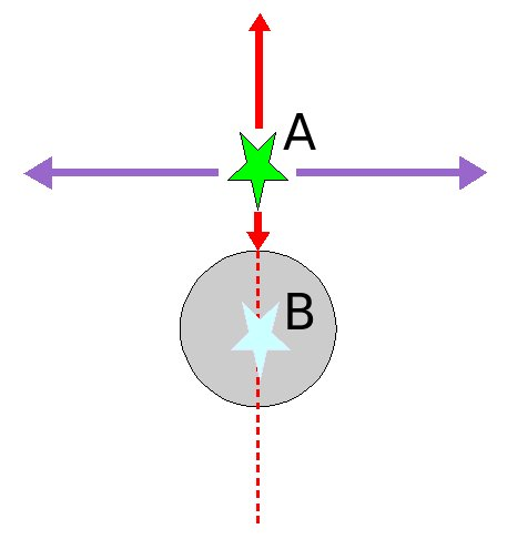 Absorption dependant of surrounding material